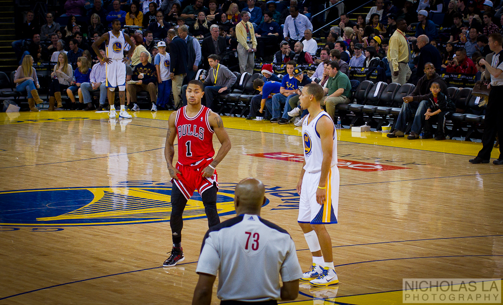 Derrick Rose of the Chicago Bulls playing against the Golden State Warriors